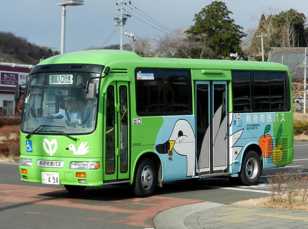 Hino Liesse (PB-RX6JFAA) for the Rifu Chomin Bus (Rifu Town Bus) east route